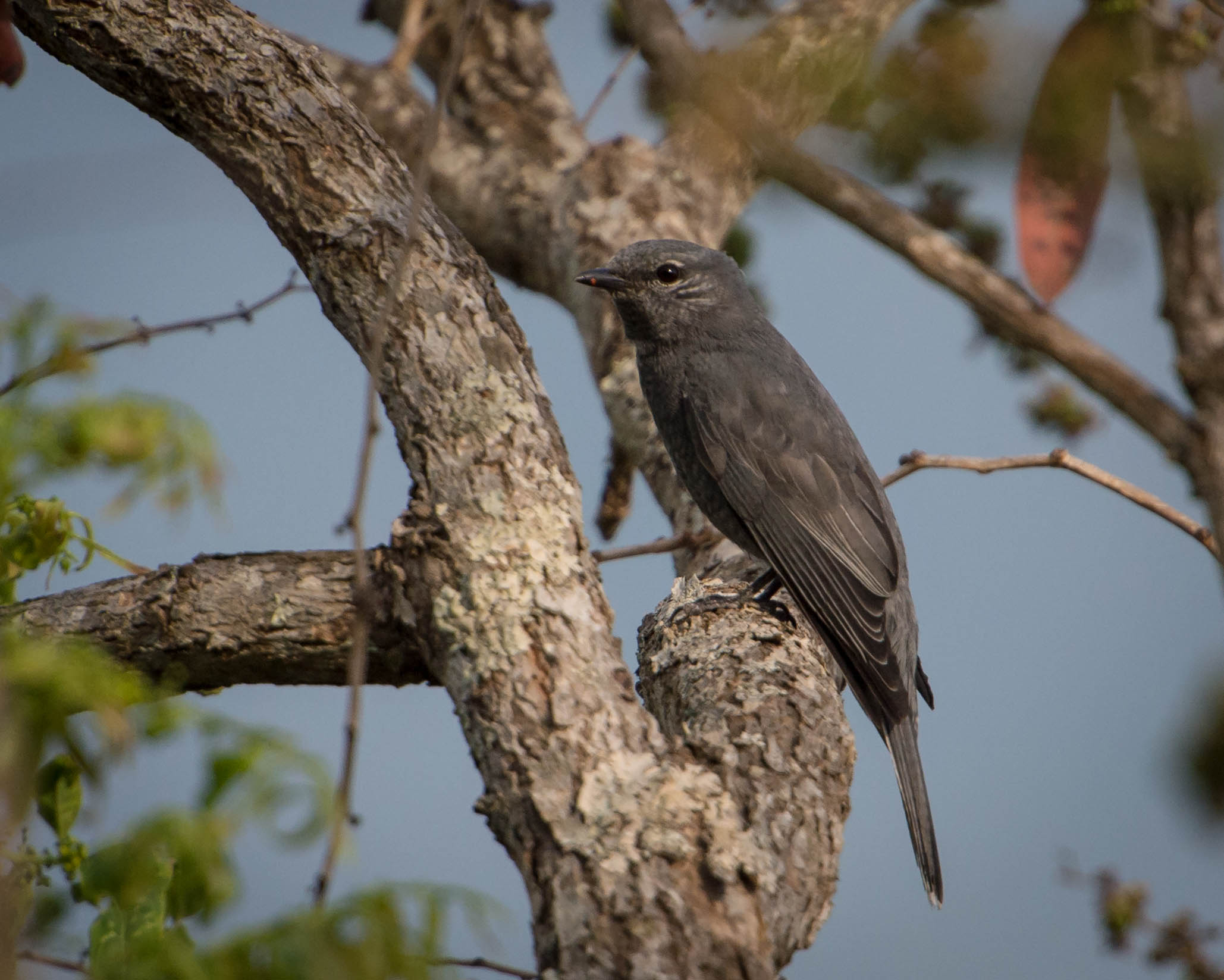 Female of Black-winged Cuckooshrike (Coracina melaschistos) at Thai/Myanmar Border. Doi Pha Hom Pok National Park, Chiang Mai Thailand. Tallest point 2,285 metres above sea level